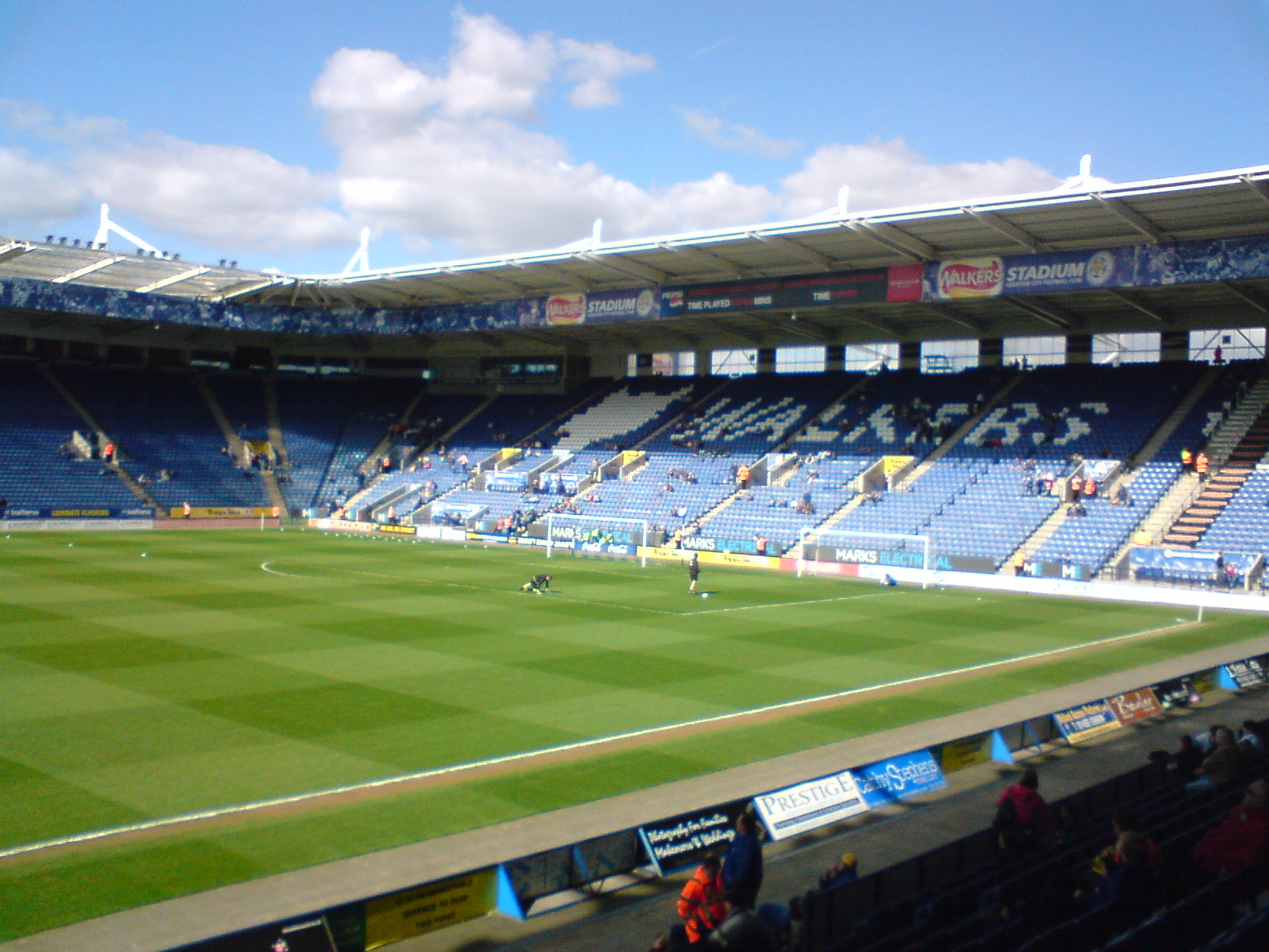 The picture was taken at the Walkers Stadium in Leicester, april 2009